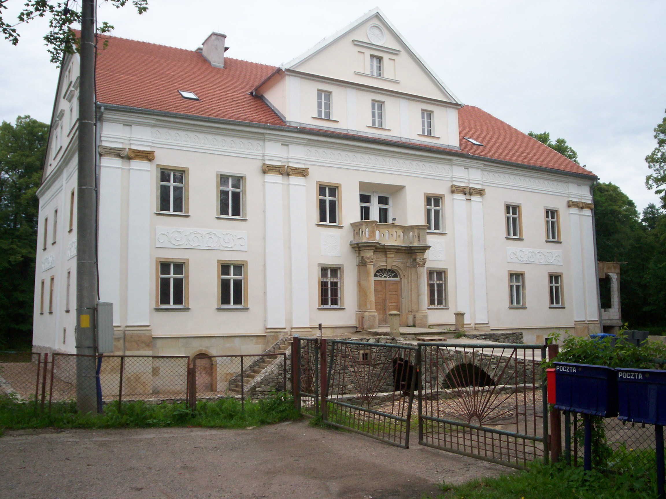 Palace in Ciechanowice.